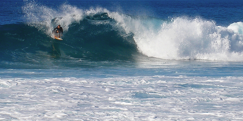 Oahu, Hawaii, USA, Waimea Bay, surfer in late January